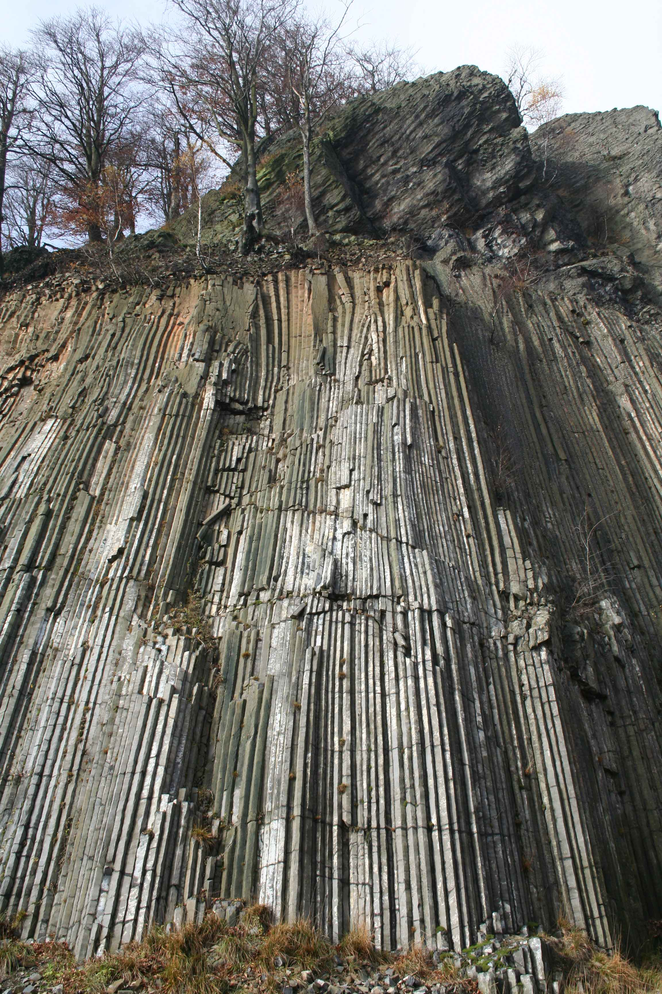 Basalt columns at Zlatý vrch (657 m) near Česká Kamenice in Lusatian Mountains, Czech Republic